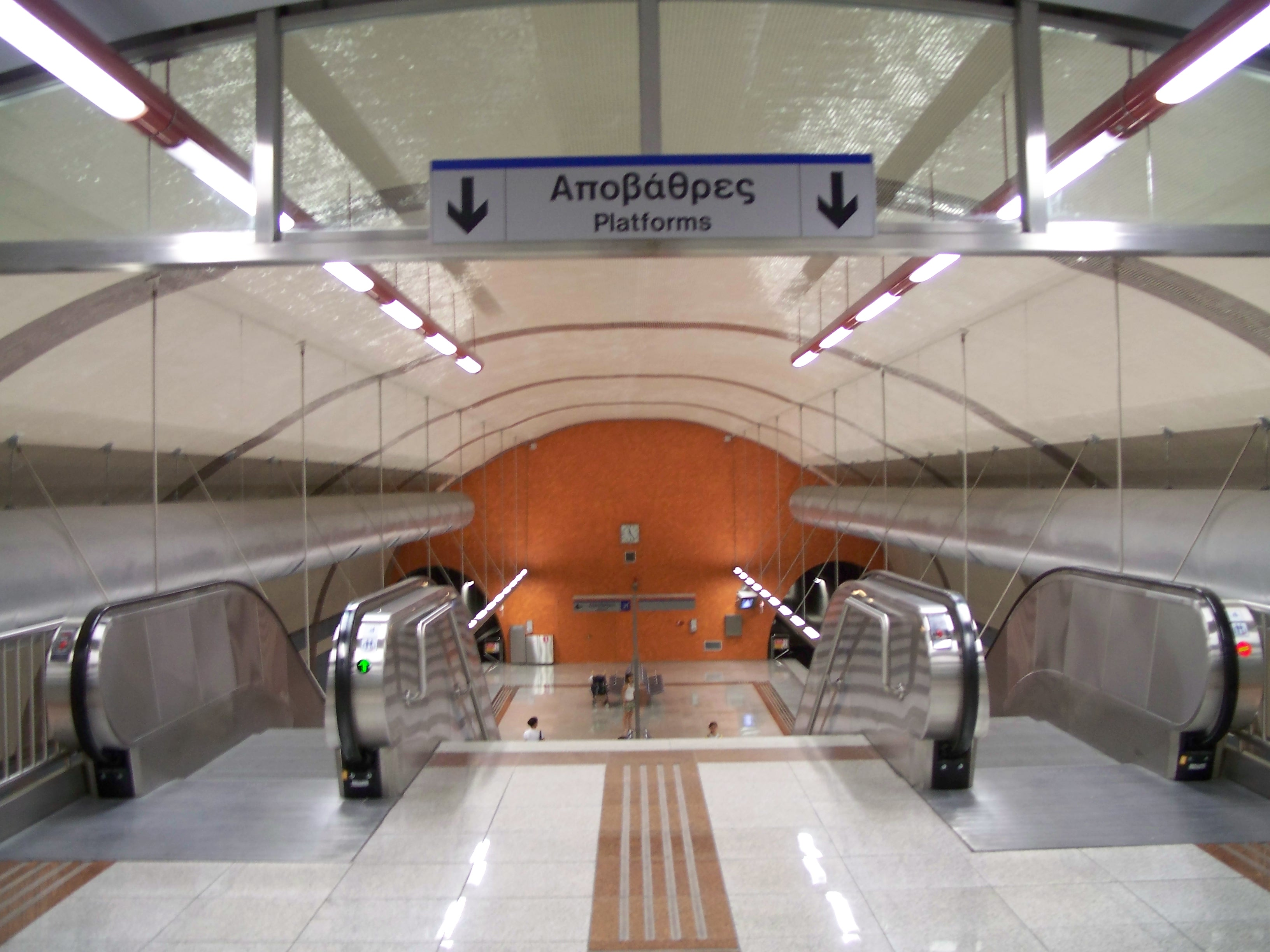 Aigaleo station of Athens Metro system